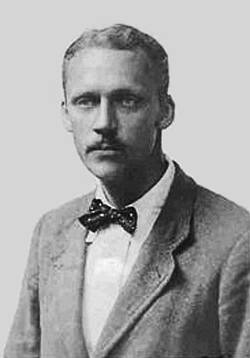 Bell’s Royal Aero Club Aviator’s Certificate (his pilot’s license) photograph, taken on 15 August 1915. It also shows his birthdate, 8 September 1880, at Edinburgh—actually Uphall, Linlithgowshire, now West Lothian. Royal Air Force Museum